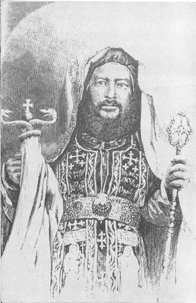 Image of the Abuna Salama, died 25 October, 1867